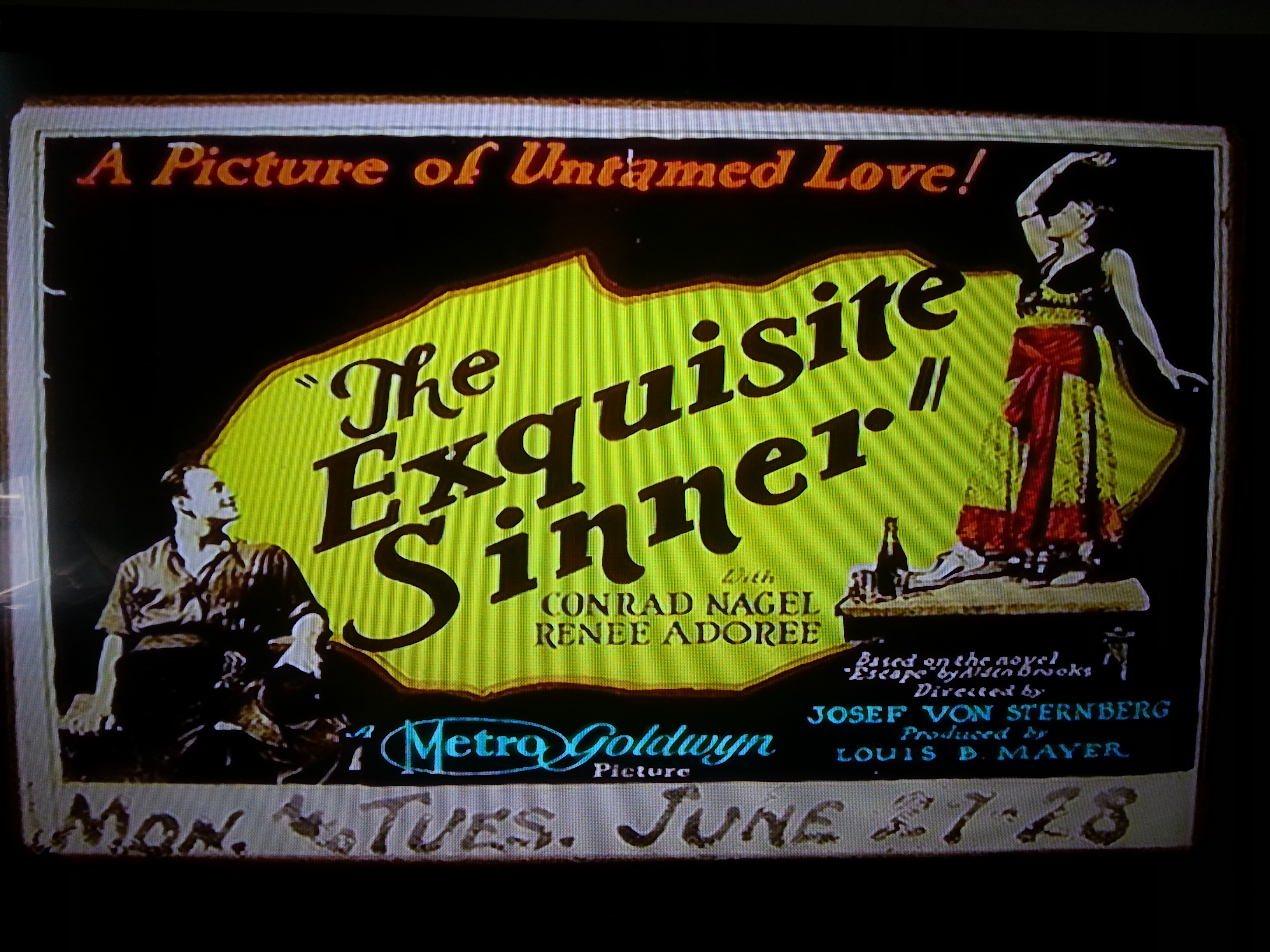 The Exquisite Sinner Publicity Advertisement, lantern slide of comming attraction